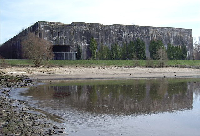 (Germany, Bremen-Farge) Bunker submarines two of the largest bunkers in Europe